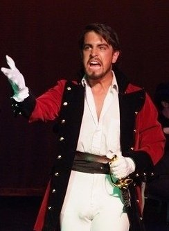 Adam Bond on stage as Cinderella's Prince in the Crested Butte Mountain Theatre 2008 Production of Into the Woods.